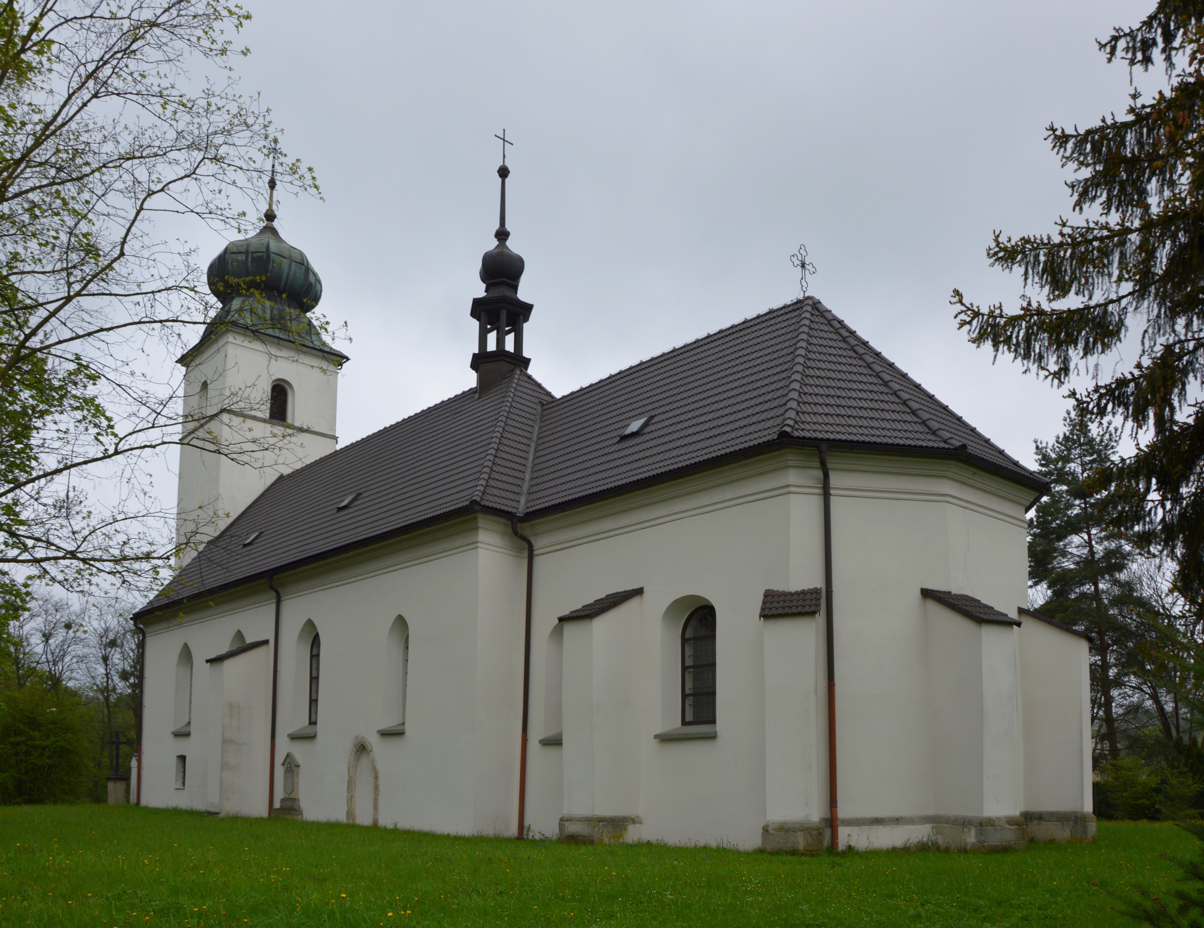 Look at the church of st. Nicolas from the south-east.